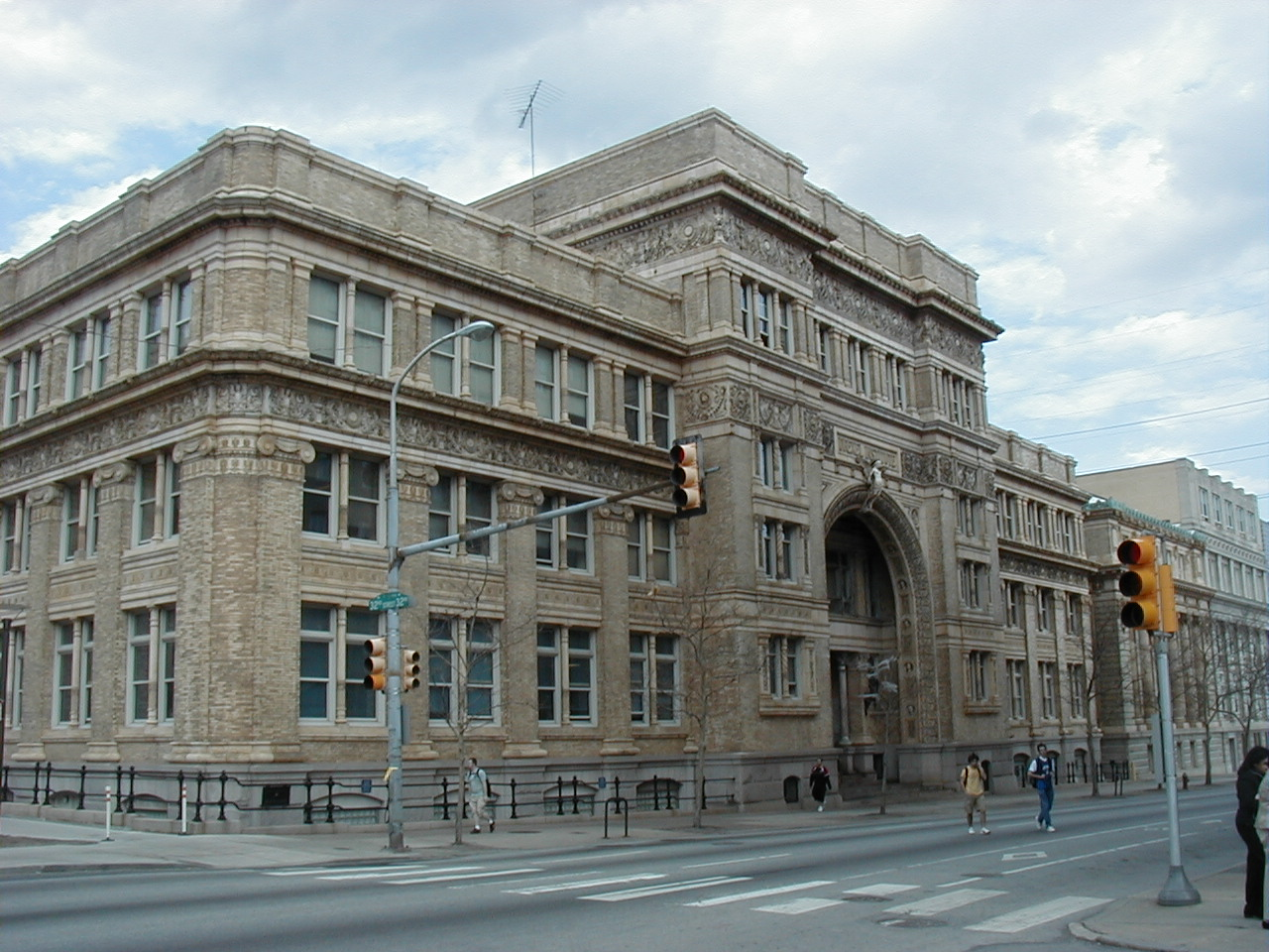 Summary The Main Building (made in 1891) of Drexel University. Category:Images of Philadelphia, Pennsylvania